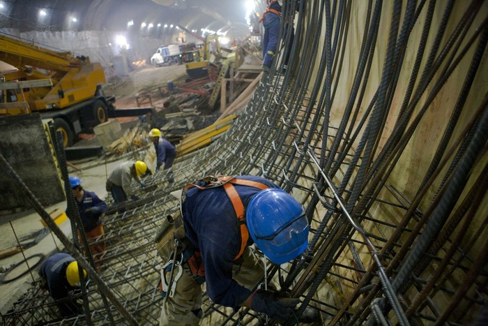 Construction work on Line H of the Buenos Aires Underground.